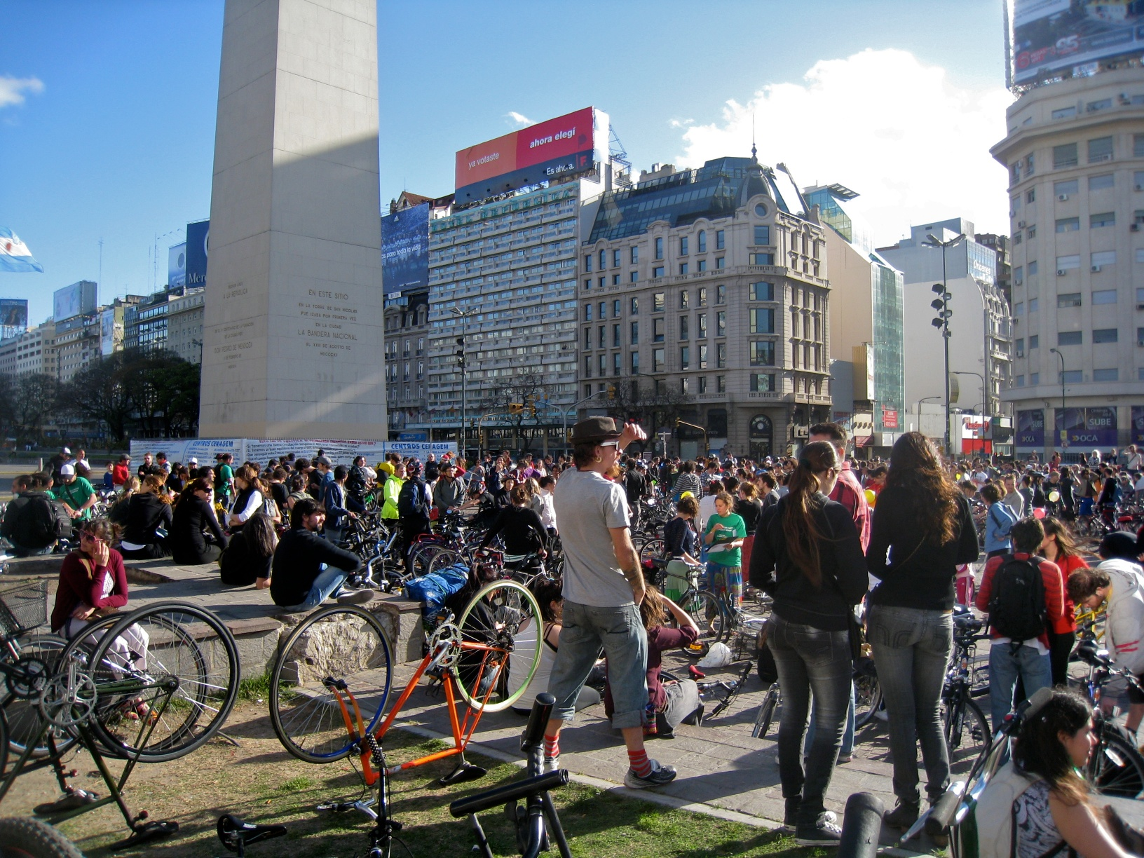 Critical Mass gathers at Obelisco